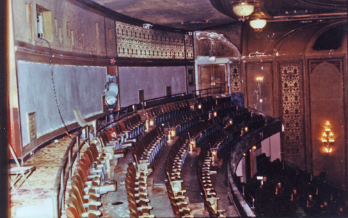 After 54 years, the Orpheum Theatre in Memphis was due for facelift.